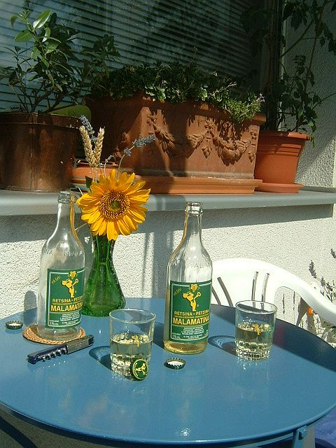 Malamatina, a greek Restsina wine with glasses